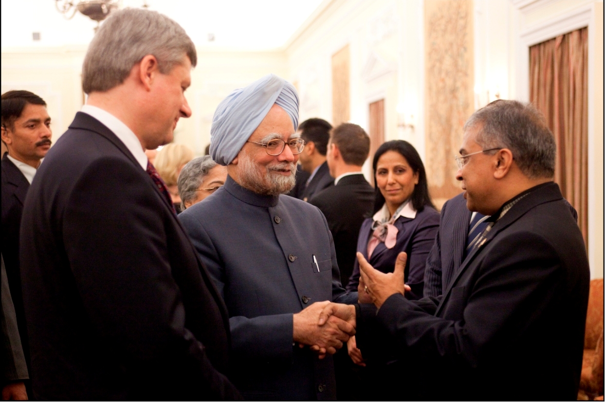 Dr. Aditya Jha, Dr. Manmohan Singh (Indian Prime Minister), Stephen Harper (Canadian Prime Minister) in India 2009